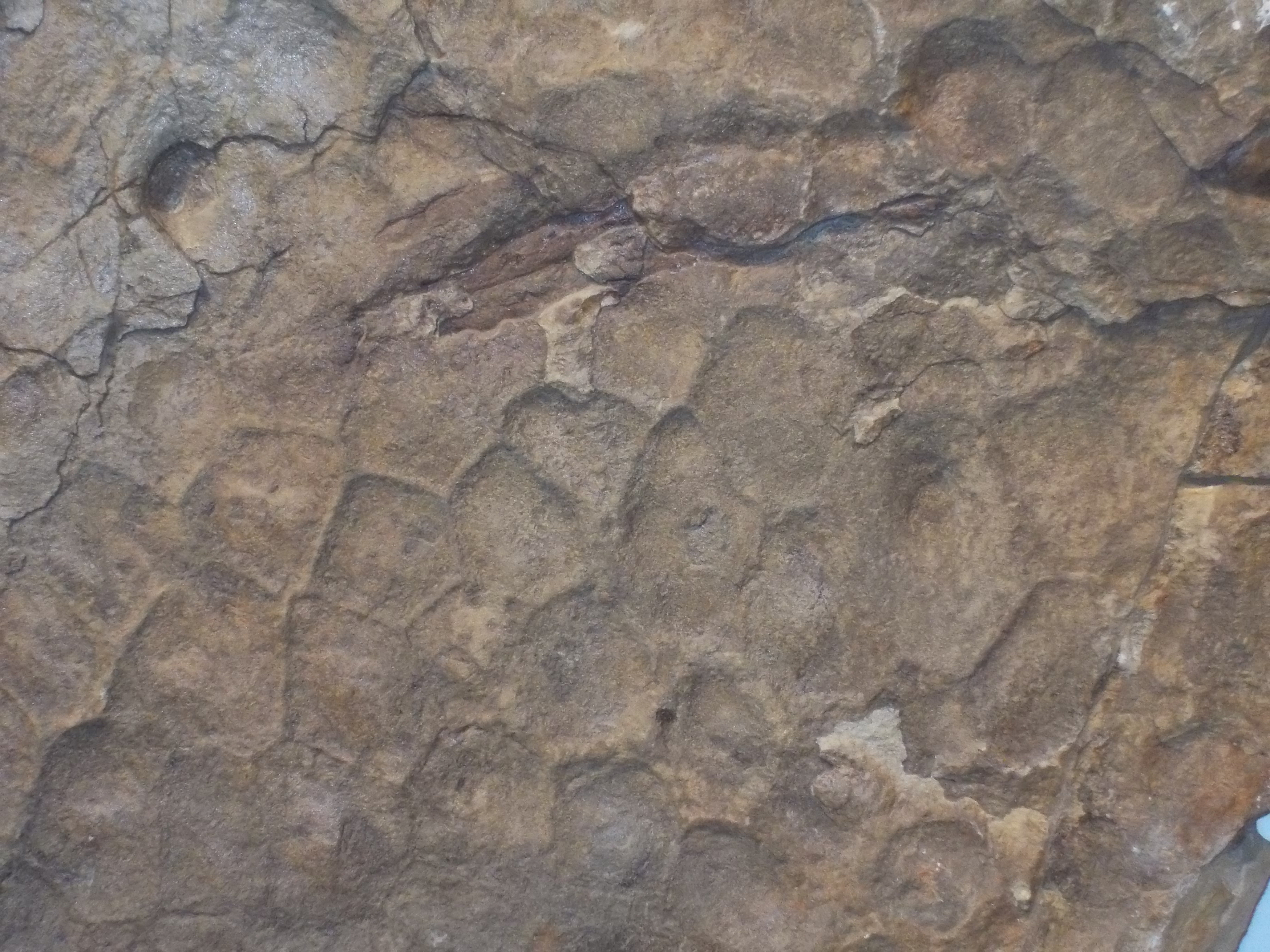 print of Triceratops skin